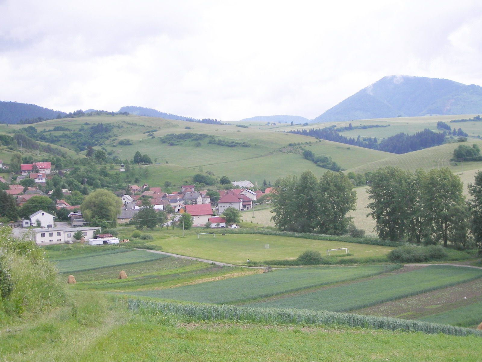 Turčianske Jaseno - view from northwest